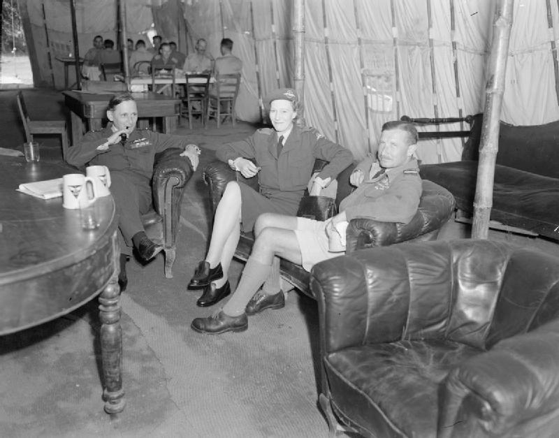 Royal Air Force- Italy, the Balkans and South-east Europe, 1942-1945. Air Marshal Sir Arthur Tedder, late Deputy Supreme Commander, Allied Expeditionary Forces (left), Lady Tedder, and Air Vice-Marshal R M Foster, Air Officer Commanding the Desert Air Force, relax in the Officers' Mess of No. 8 Wing SAAF at Campoformido, Udine, Italy, shortly after arriving for a tour of RAF Malcolm Clubs in northern Italy, of which Sir Arthur and Lady Tedder were President and Vice-President.